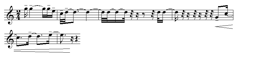 Prelude (Debussy) - Fireworks (several bars) Book II no. 12.